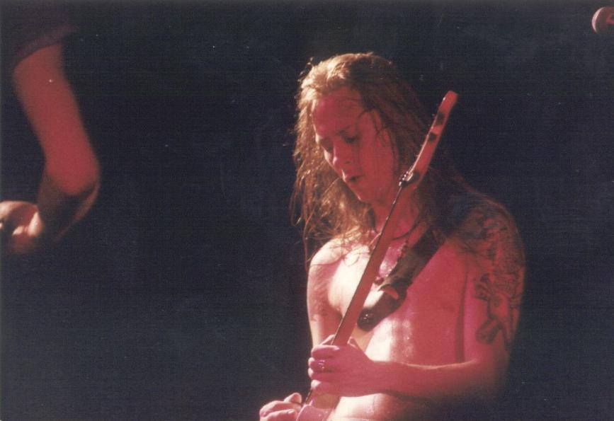 Jerry Cantrell playing with Alice in Chains at The Channel in Boston, MA.